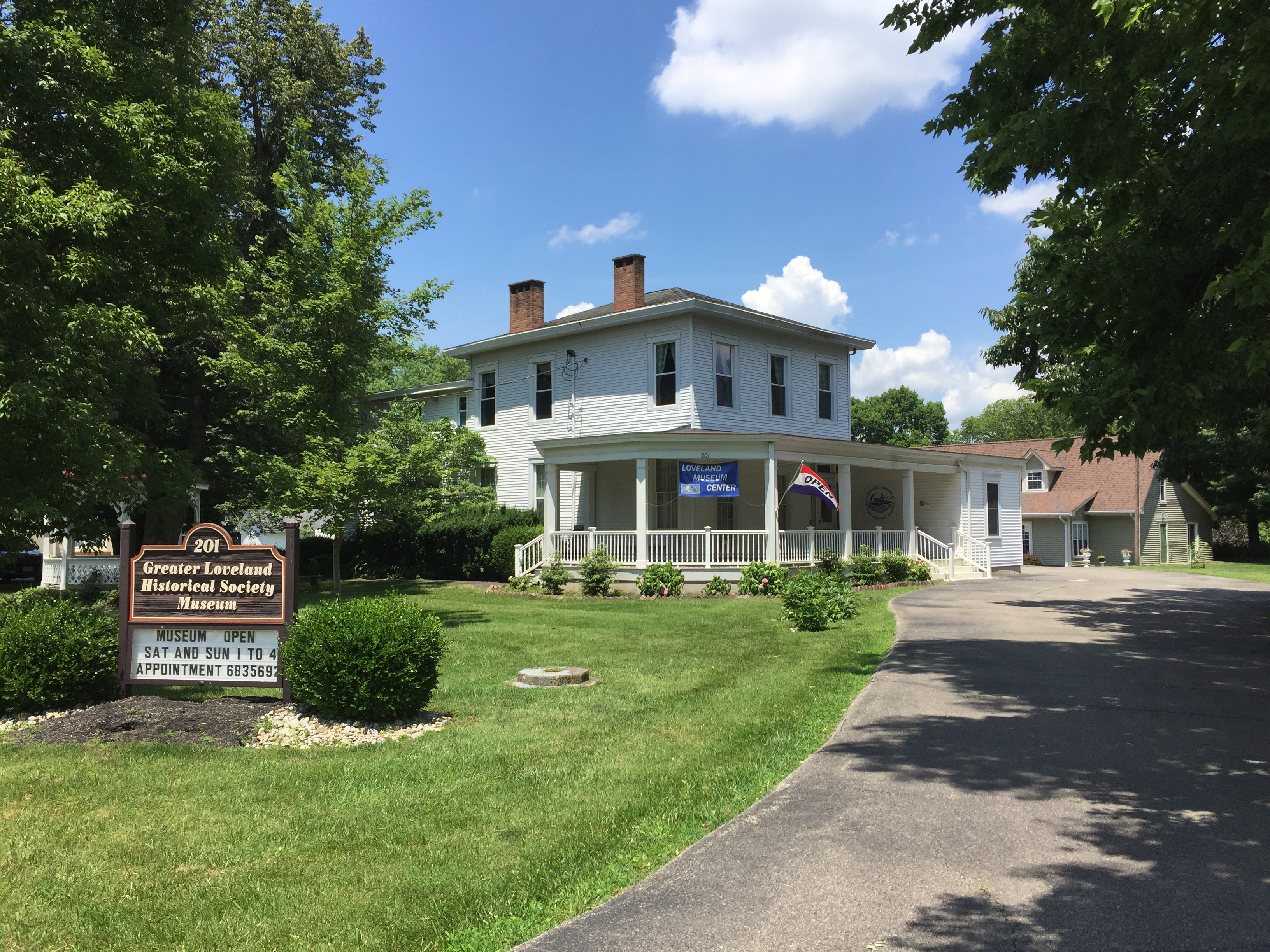 Loveland Historical Society in Loveland, Ohio in 2019